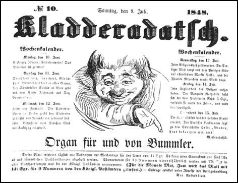 Front cover of a German satirical magazine, Kladderadatsch, first published on May 7, 1848. This cover is from the 10th issue on July 9, 1848.